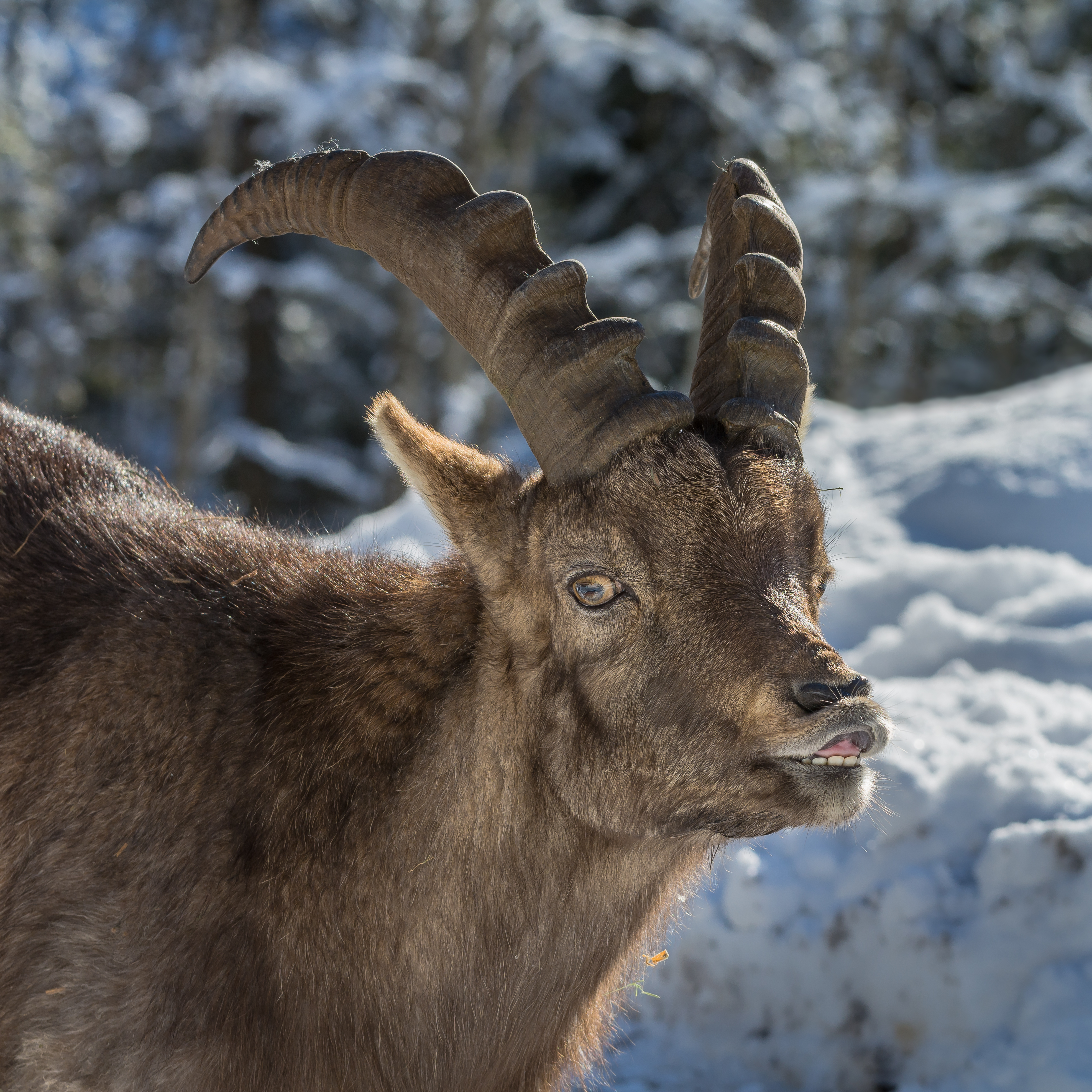 The Alpine ibex (Capra ibex) is a species of subfamily Caprinae native to the alps in Europe. This one lives in Cumberland Wildpark, Grünau im Almtal / Upper Austria.